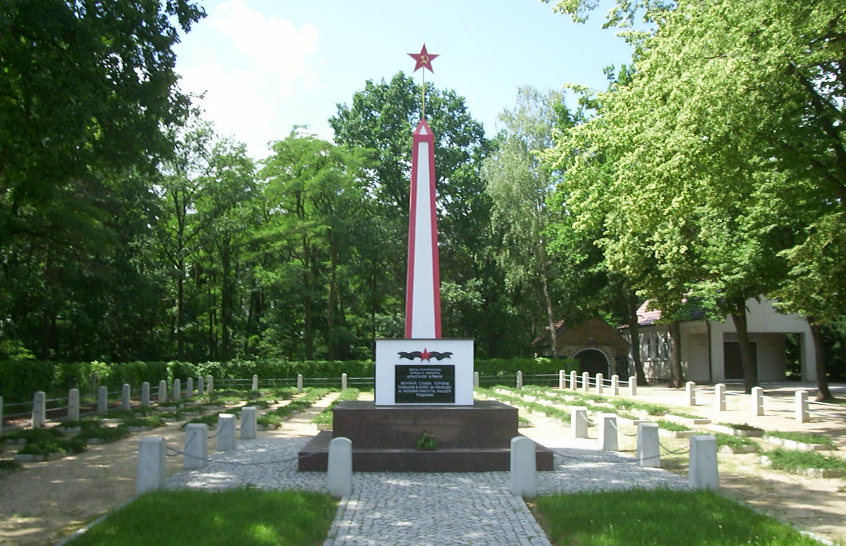 Soviet soldiers' graveyard in Trebendorf